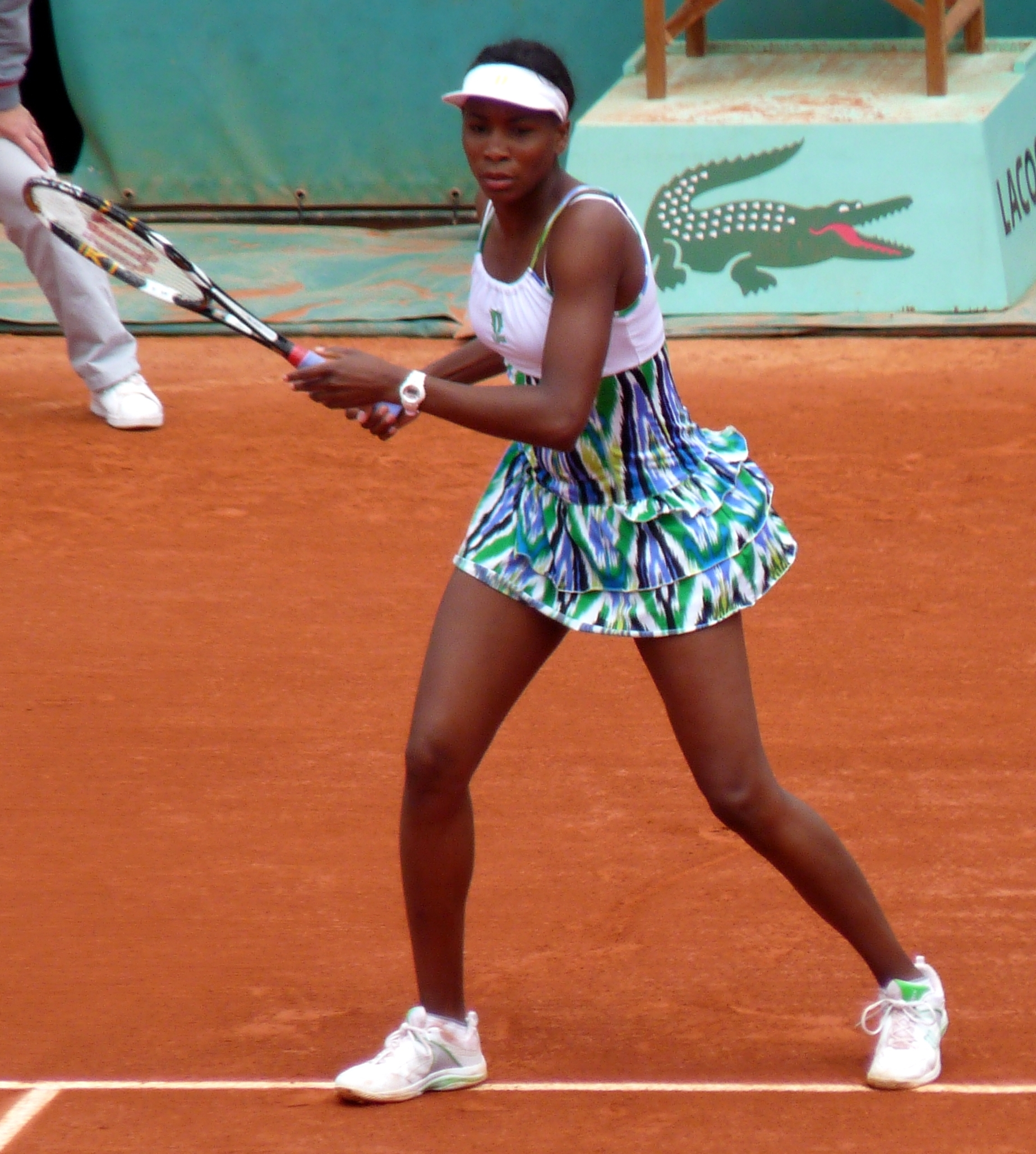 Venus Williams against Ágnes Szávay in the 2009 French Open third round